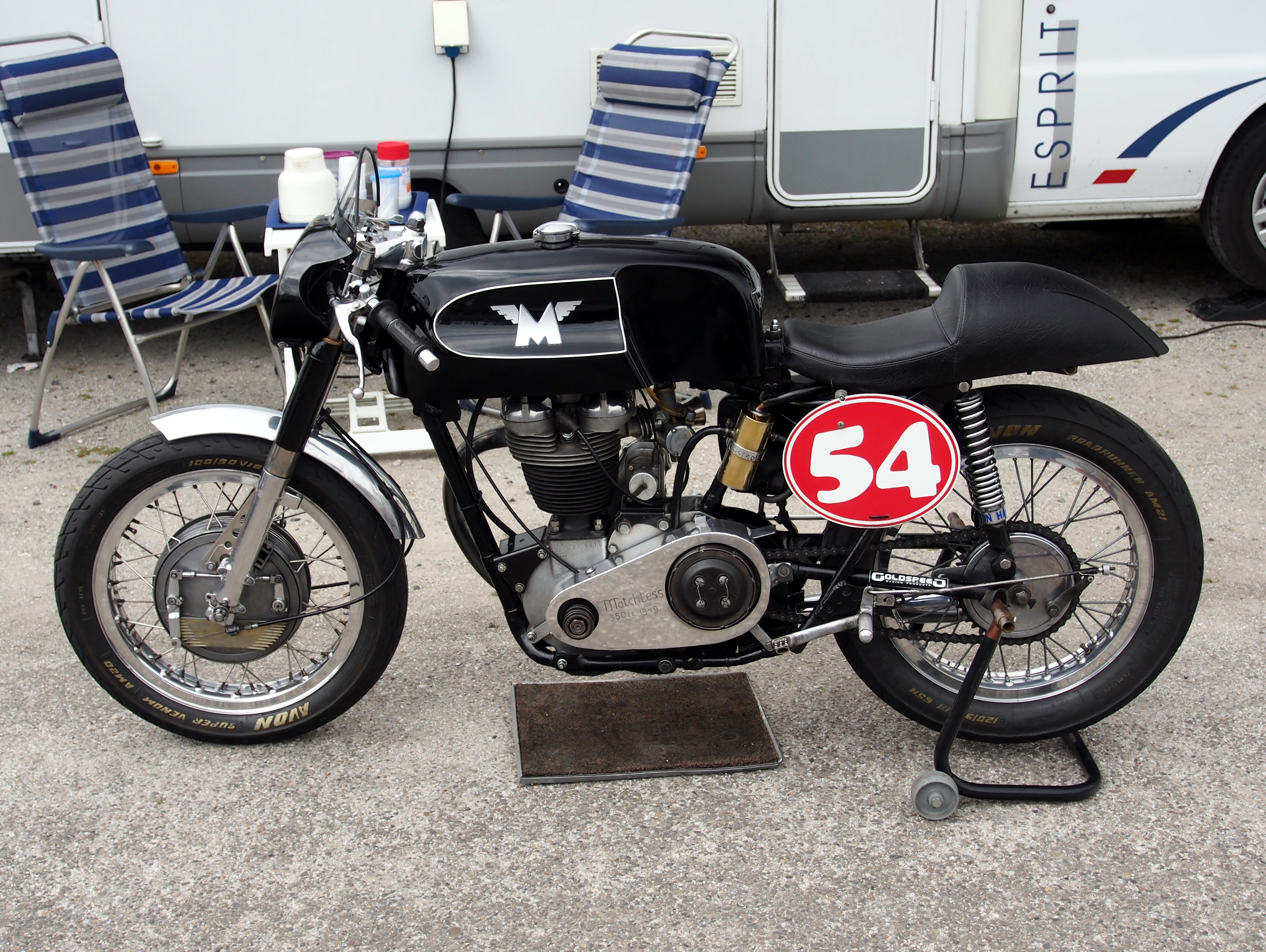 Photographed at Rockanje, The Netherlands.